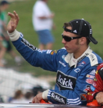 NASCAR driver J. R. Fitzpatrick during driver introductions at the 2010 Bucyros 200 the first Nationwide Series race at Road America.